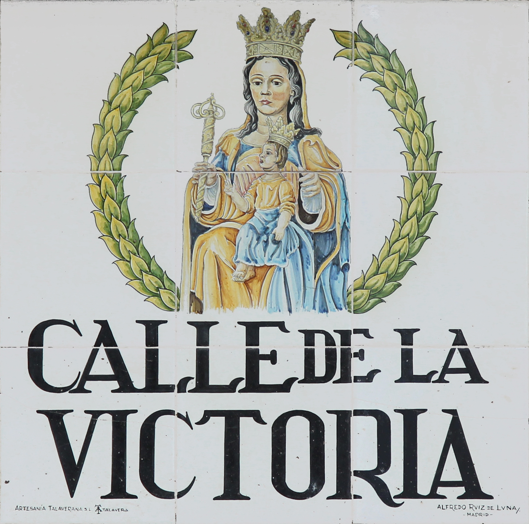 Sign of Calle de la Victoria (street) in Madrid (Spain).